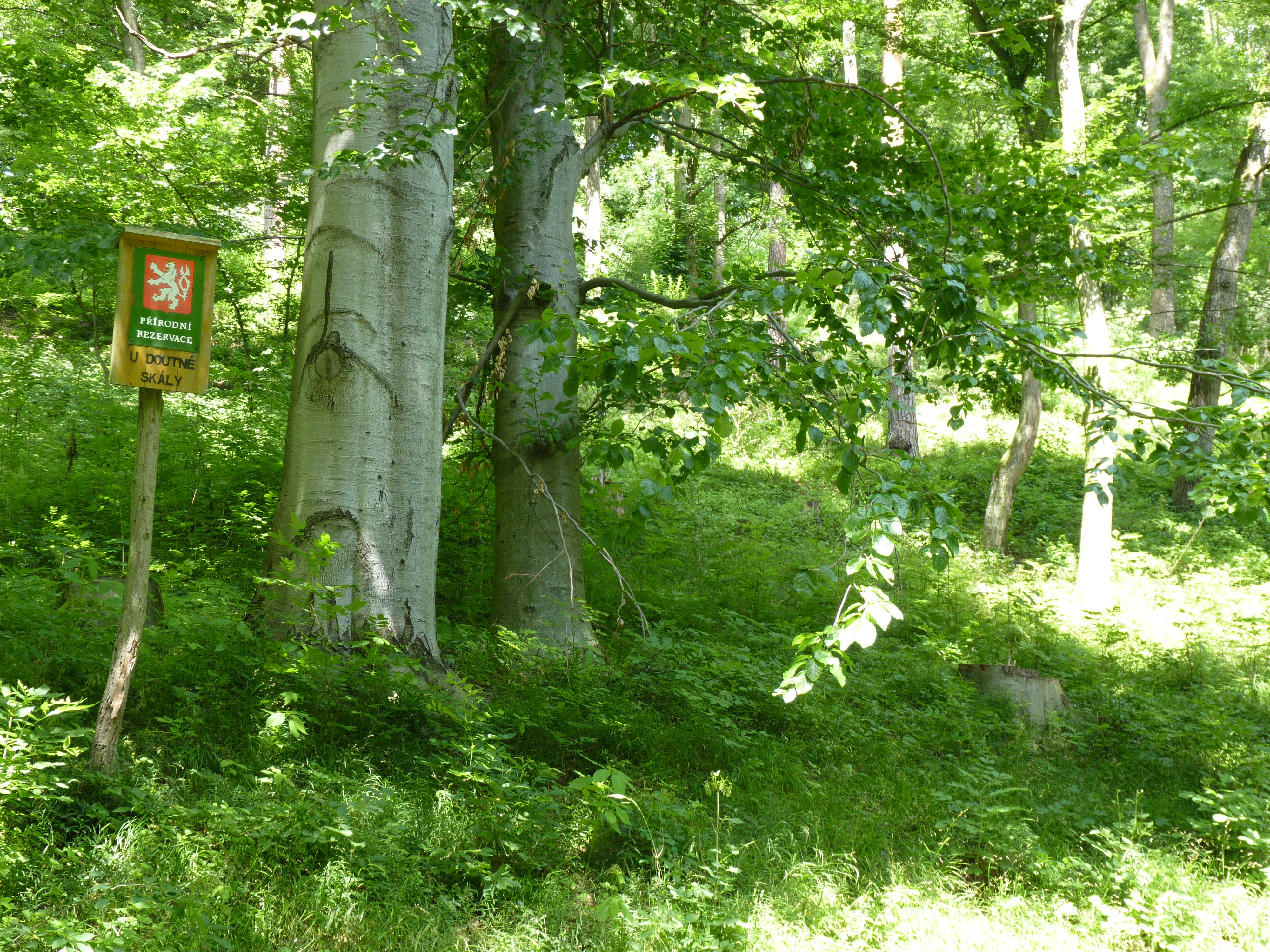 Nature reserve U doutné skály, Znojmo District, South Moravian Region, Czech Republic